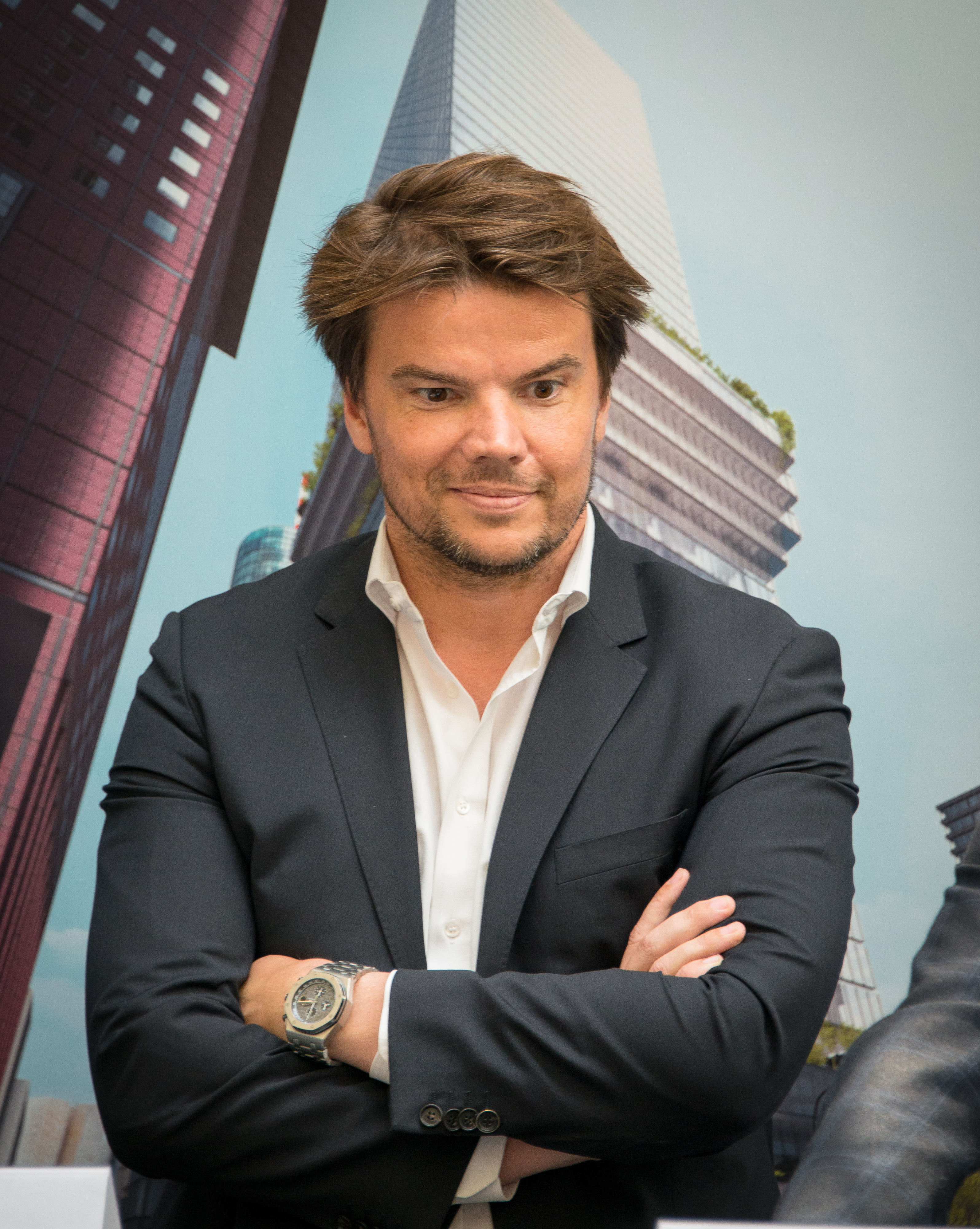 Danish architect Bjarke Ingels at a press conference in front of his design of a mixed use tower in Frankfurt am Main (June 2015).